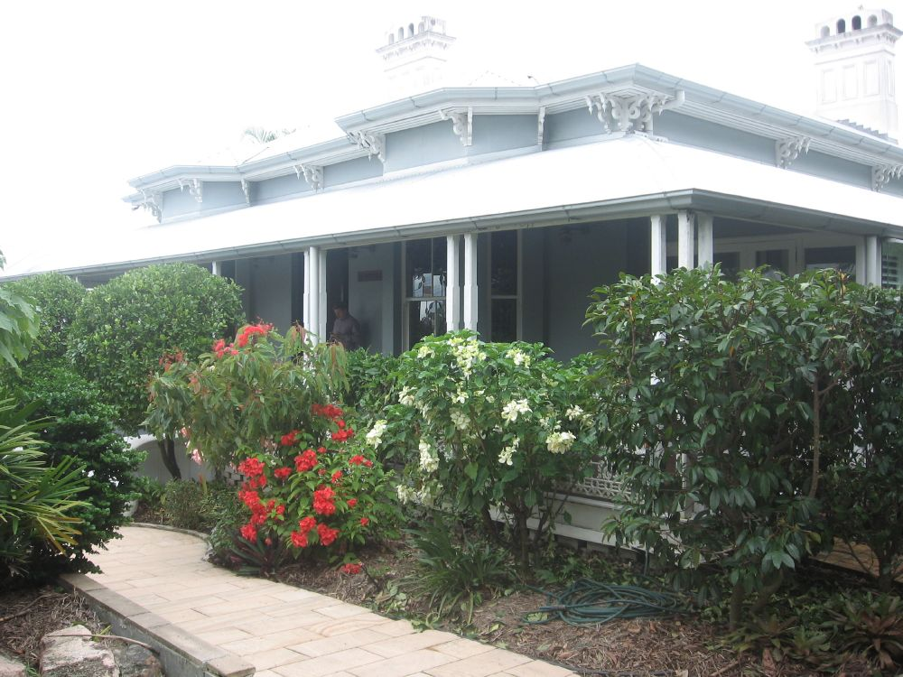 Roseville (2011)